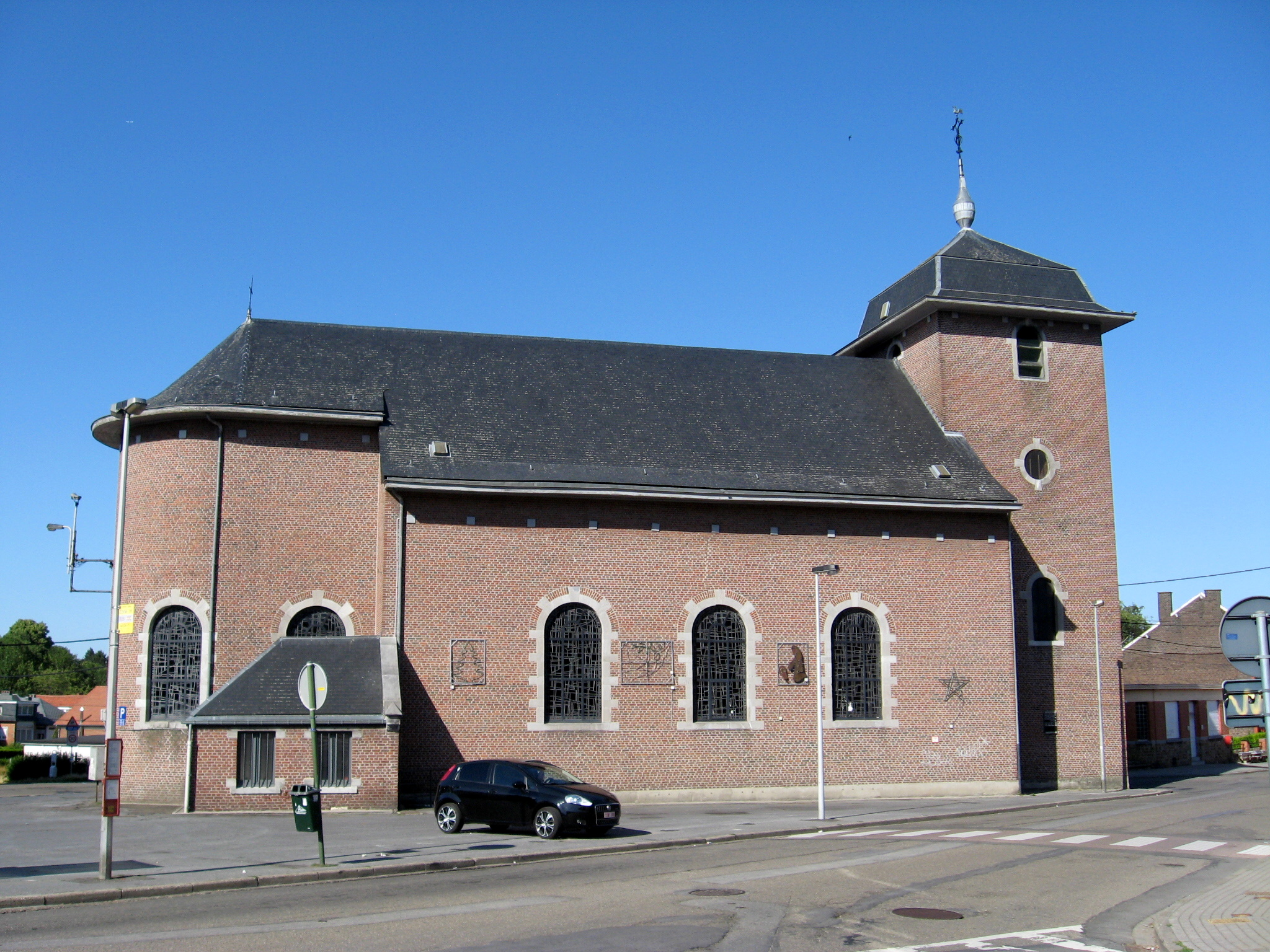 Church of Saint Stephen in Vottem, Herstal, Liège, Belgium